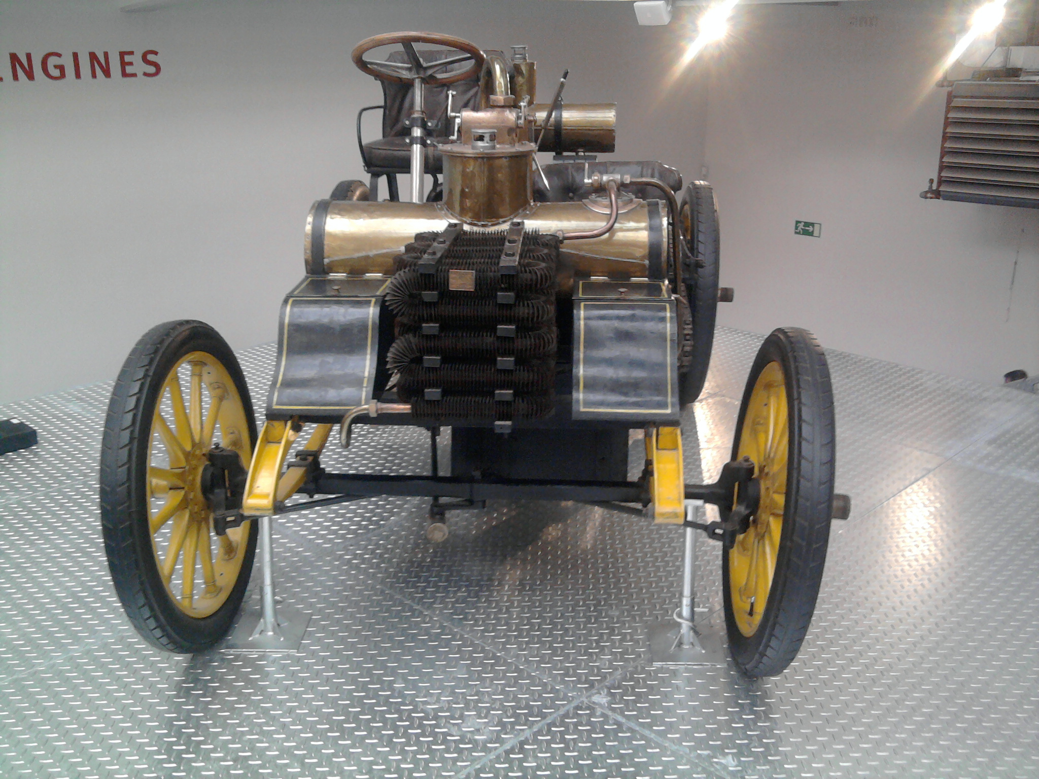 NW Rennzweier - veteran racing car manufactured by Nesselsdorfer Wagenbau-Fabriks-Gesellschaft A.G. (today Tatra, a.s.) in 1900 in Kopřivnice, Moravia.